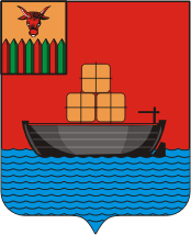 Babushkin (Mysovsk, Buryatia), coat of arms (1913)